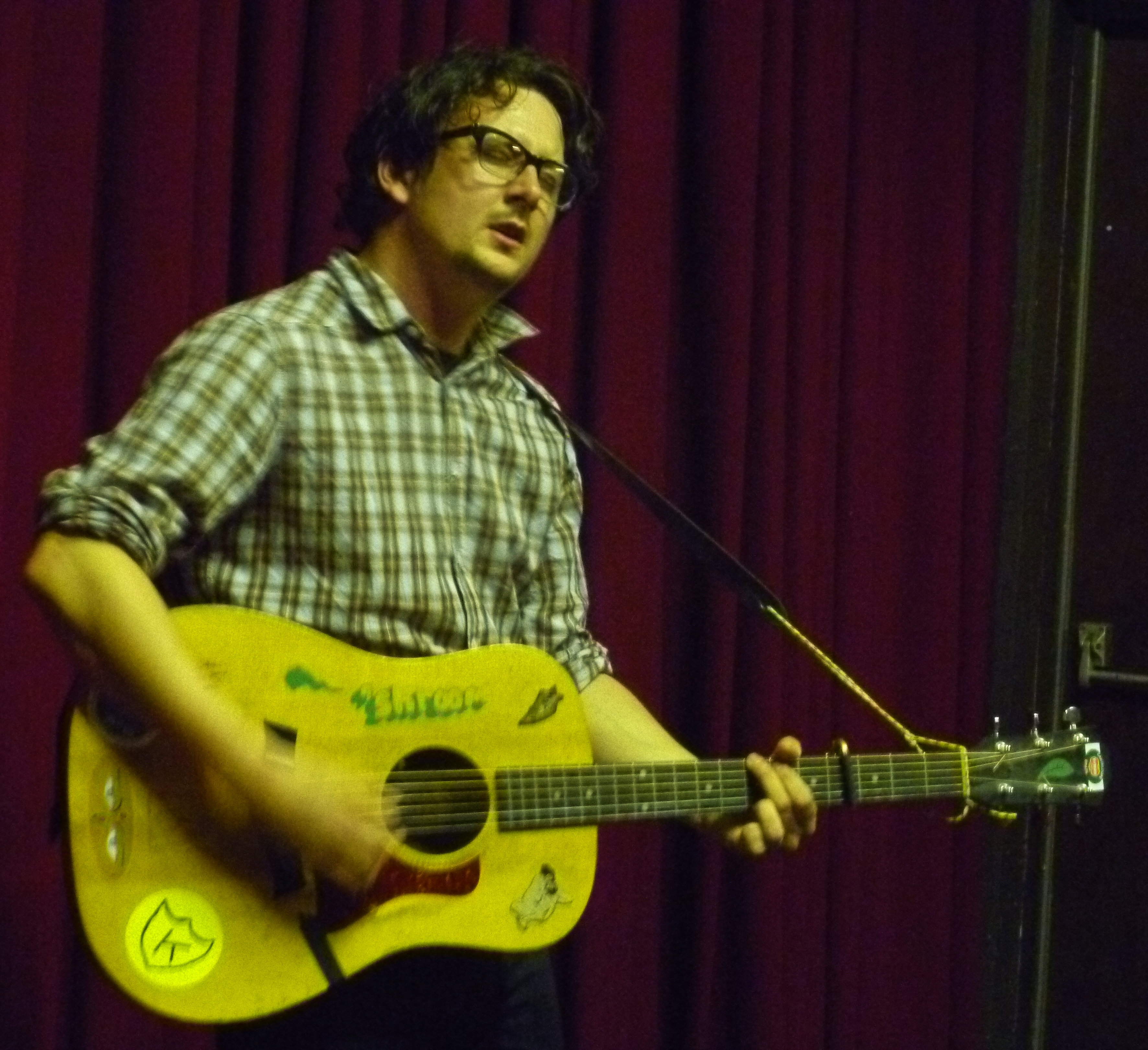 Withered Hand at the Lexington, on September 25th 2011.